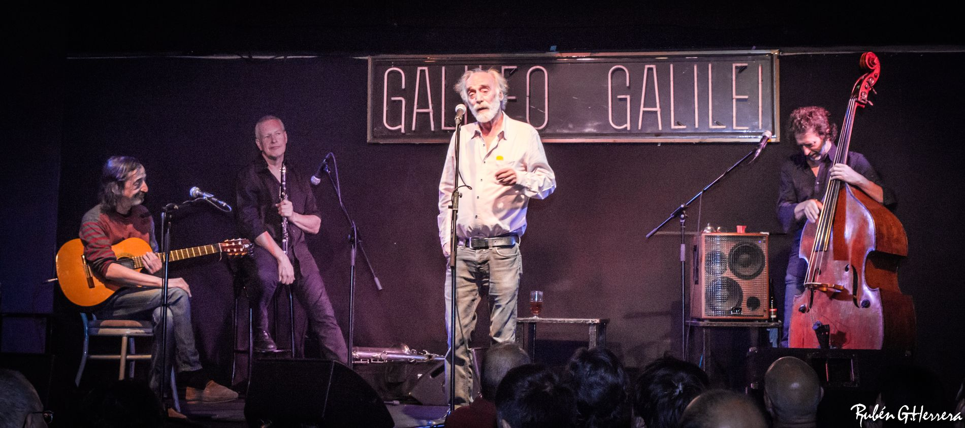 Javier Krahe